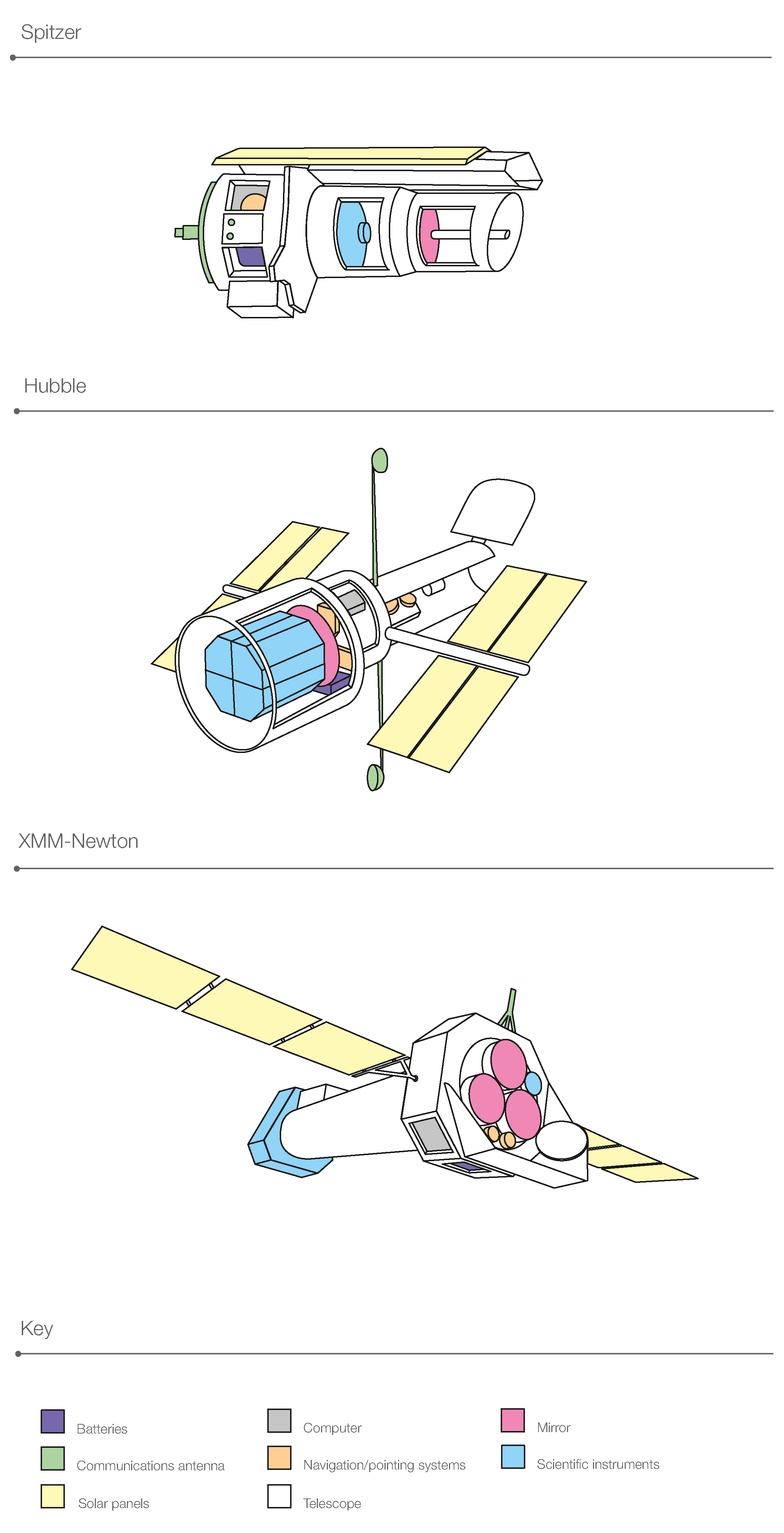 This diagram shows the structures of three space telescopes: the NASA Spitzer Space Telescope, the NASA/ESA Hubble Space Telescope, and ESA's XMM-Newton. The components of each telescope are colour-coded.